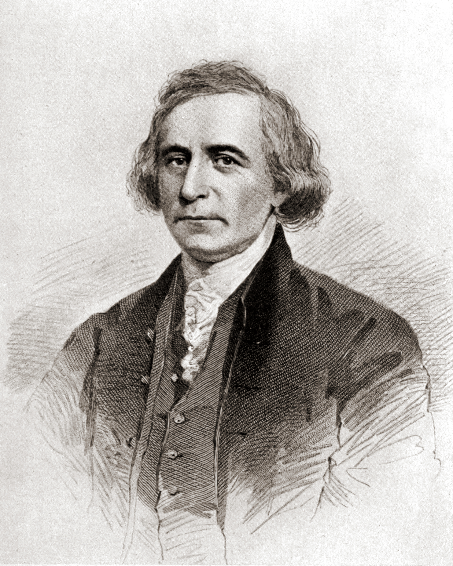 Portrait of Philip Freneau